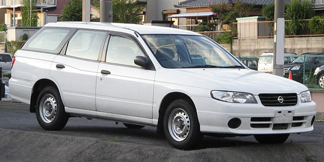 Nissan "Expert" (VW11) 2002/8-2006/12